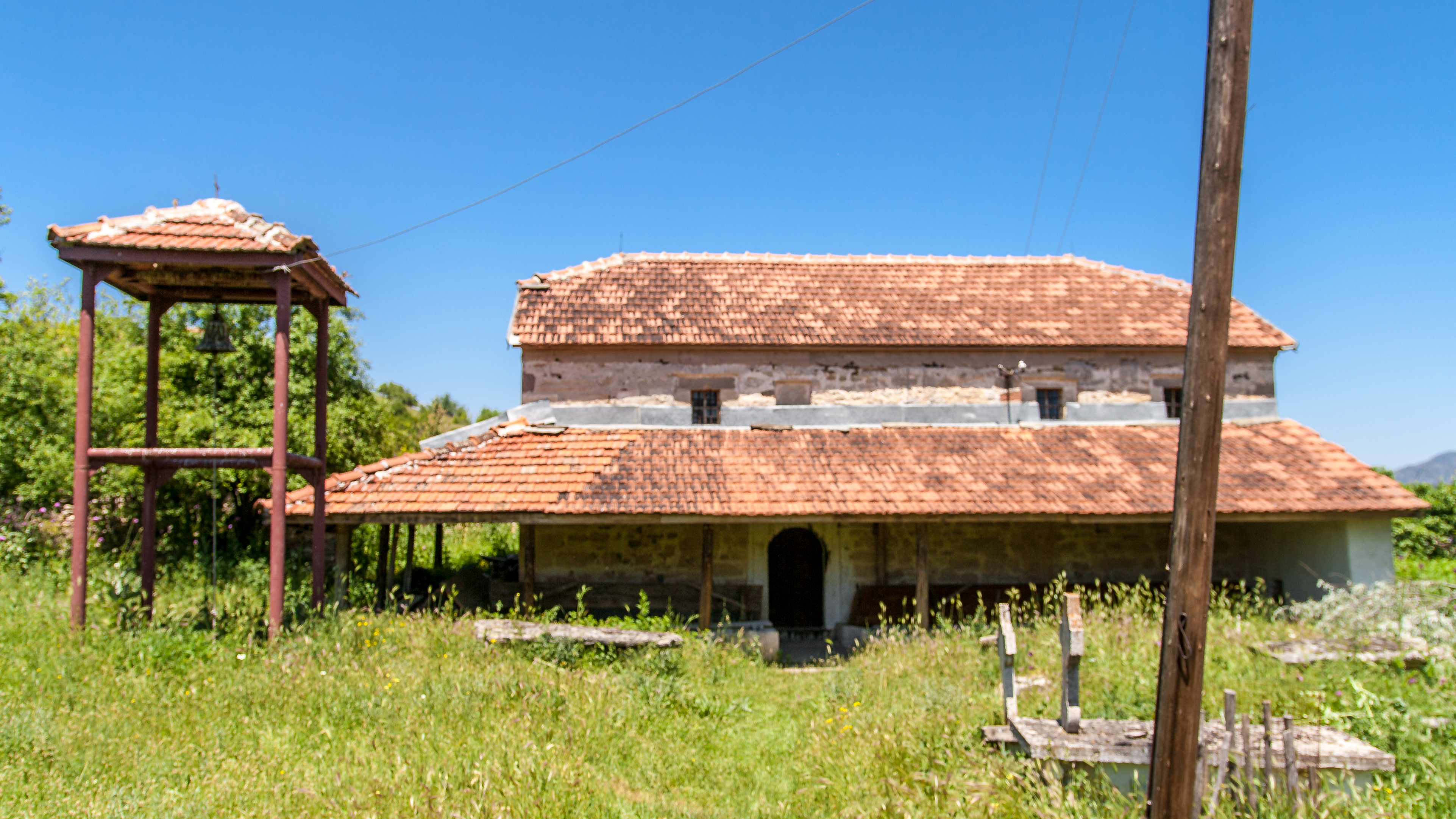 View of the St. Nicholas Church in the village Zoviḱ